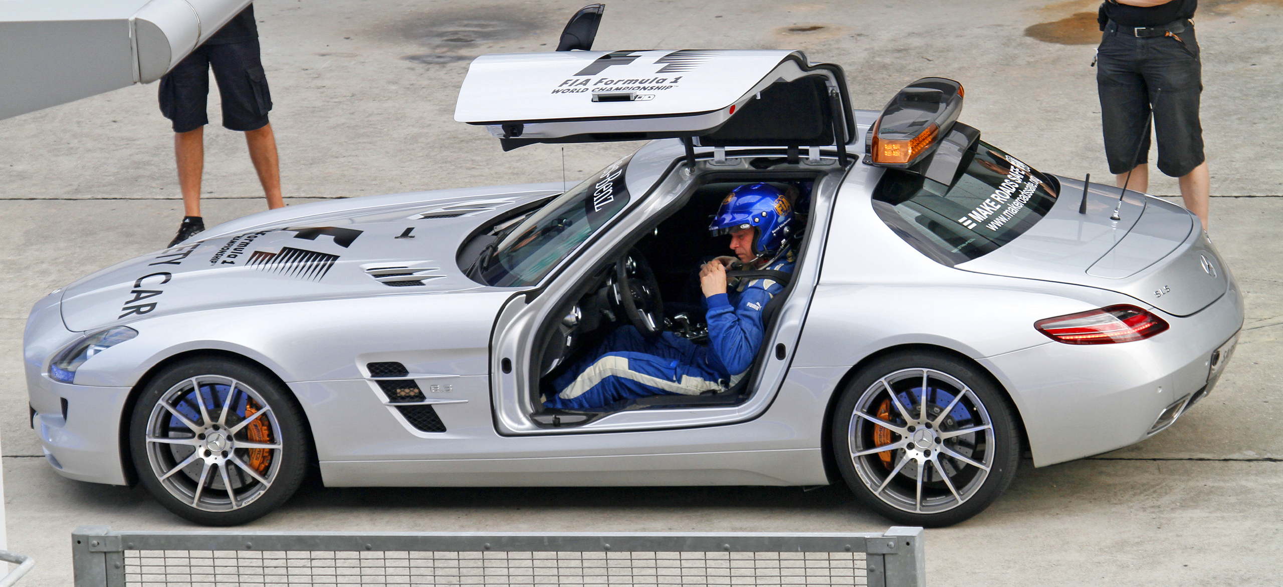 Formula One 2010 Rd.3 Malaysian GP: Bernd Mayländer with the Mercedes-Benz SLS Formula One safety car.